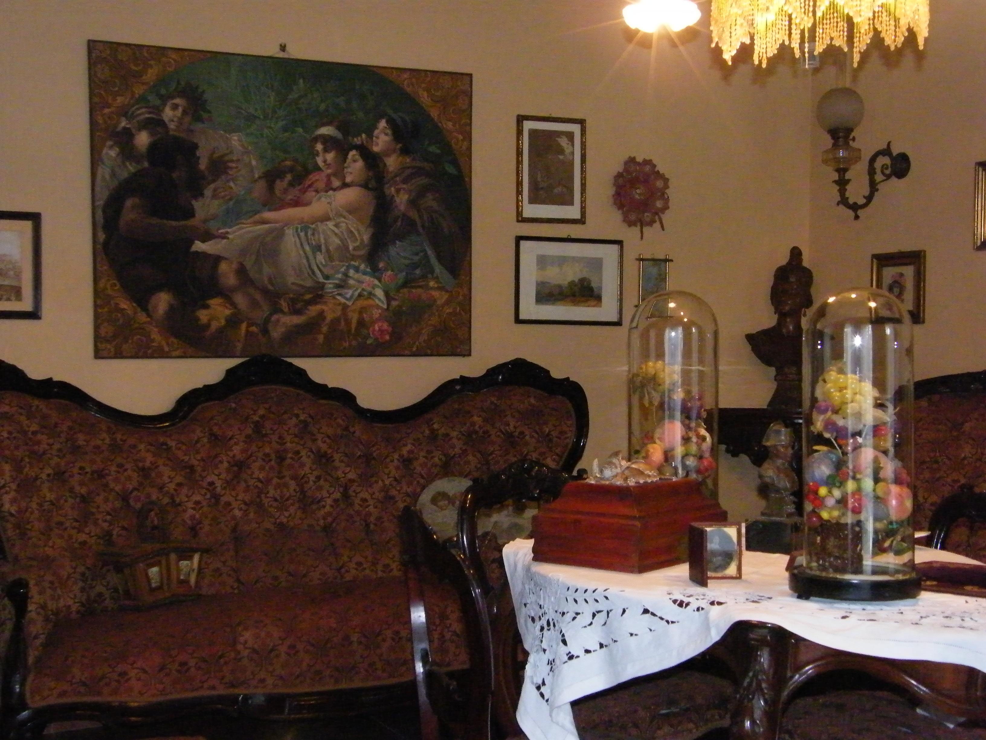 Nonna Speranza 's sitting room at Villa Il Meleto, Guido Gozzano's summer residence (Agliè - Torino)